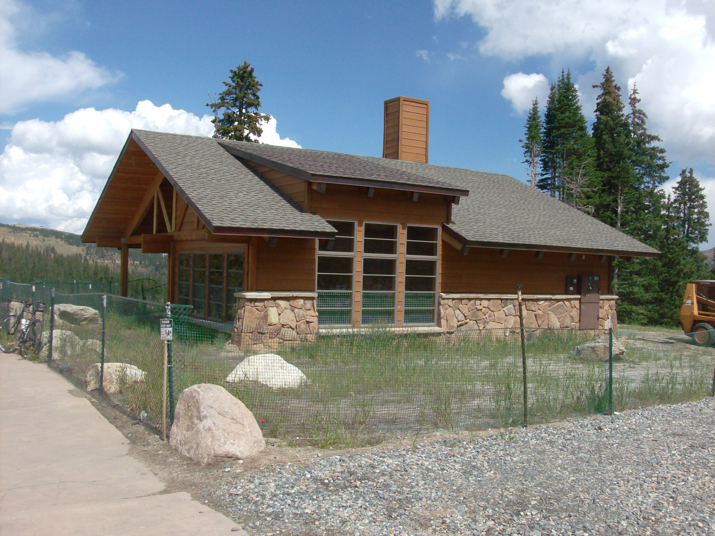 Berthoud Pass restrooms